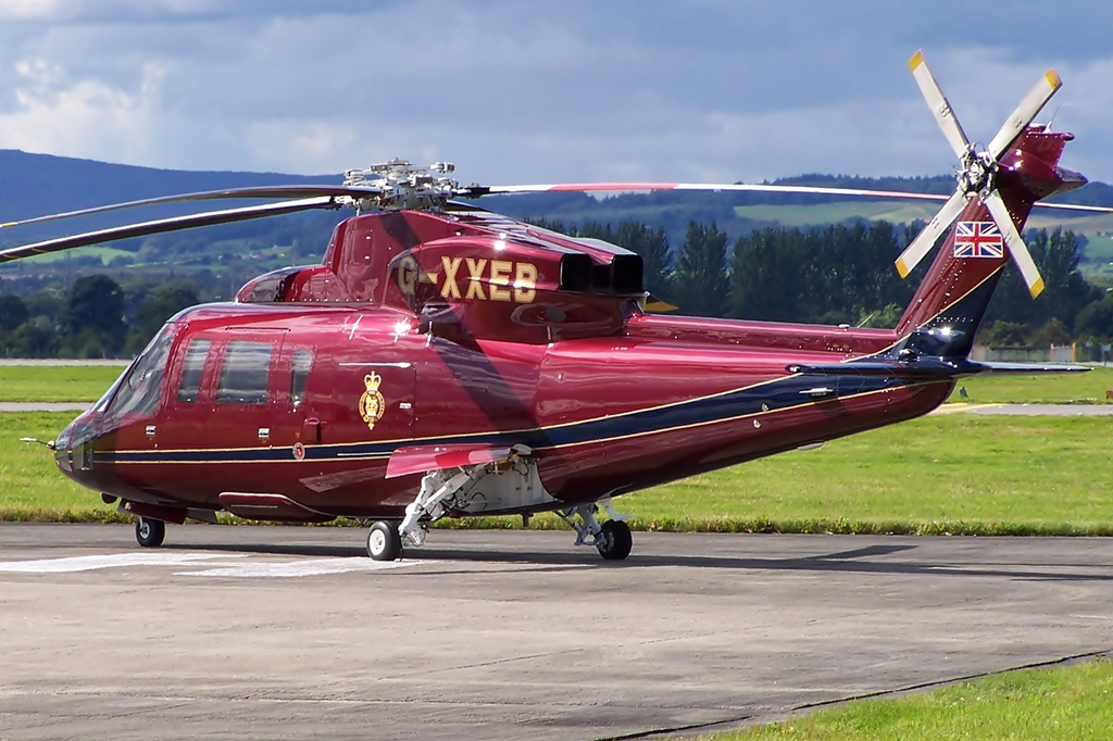 Immaculate Sikorsky S-76C++ of The Queen's Helicopter Flight at Glasgow Airport